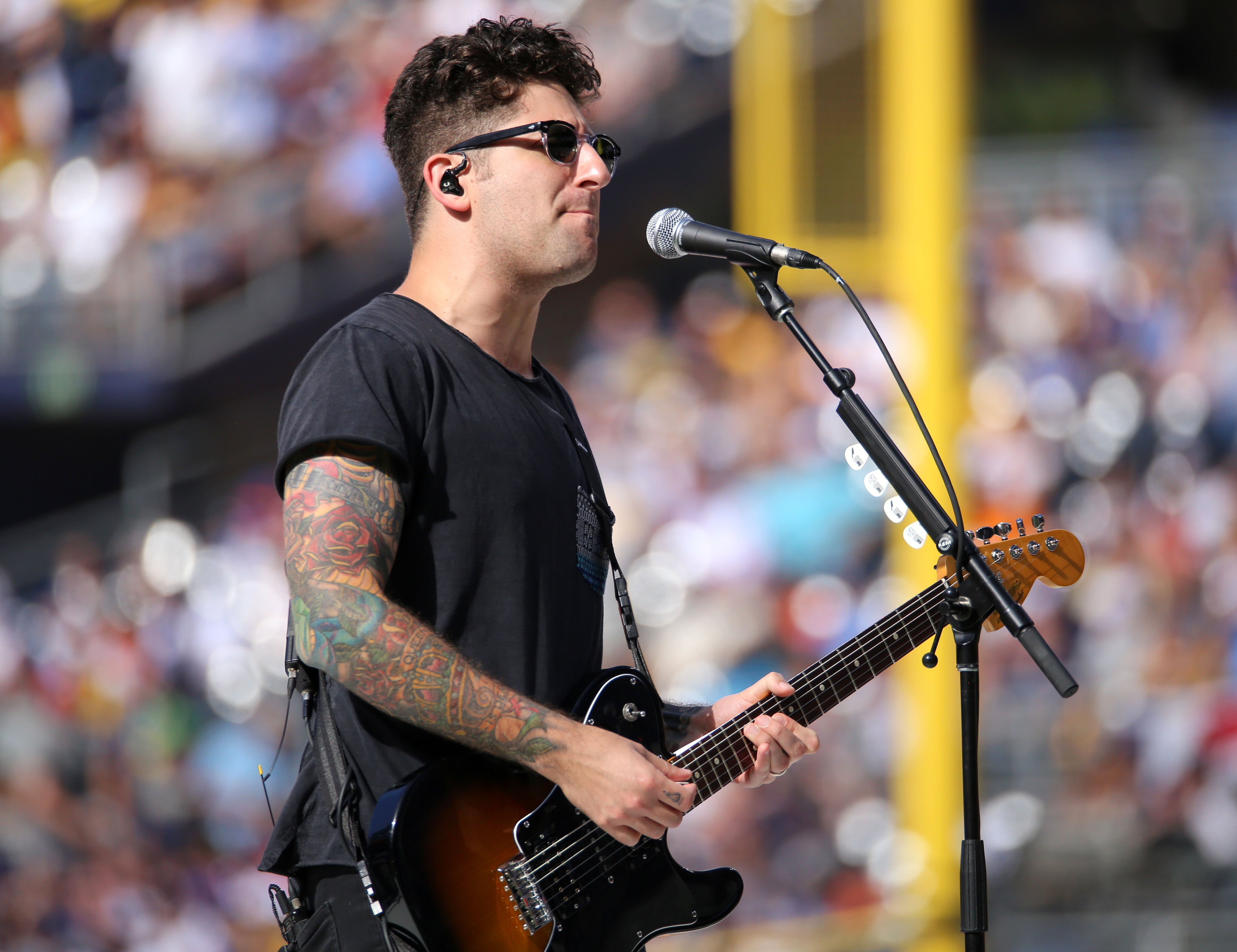 Fall Out Boy's Joe Trohman performs to open the 2016 T-Mobile #HRDerby.